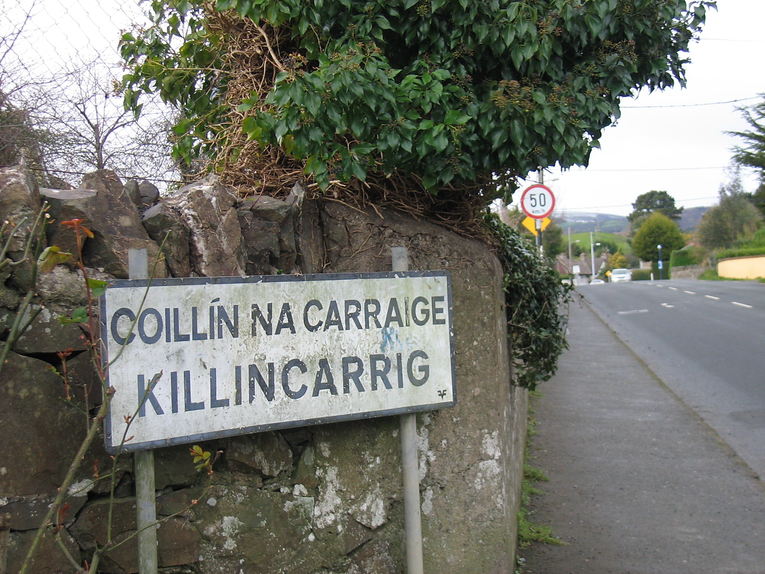 Killincarrig Village, County Wicklow (Sarah777 00:12, 20 March 2007 (UTC))